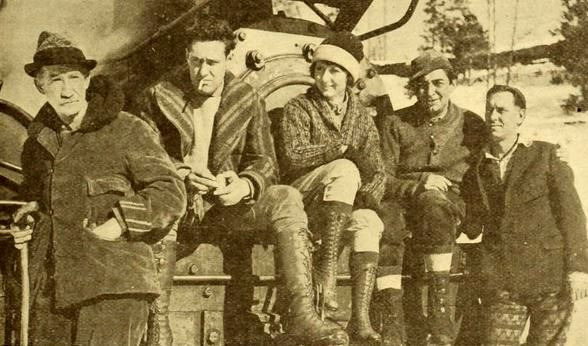 Still from the production of the American film Children of Banishment (1919) with (from the left) an unidentified man, Herbert Heyes, Bessie Eyton, Mitchell Lewis, and an unidentified man, members of the production company riding through Yosemite country, on page 897 of the February 15, 1919 Moving Picture News.